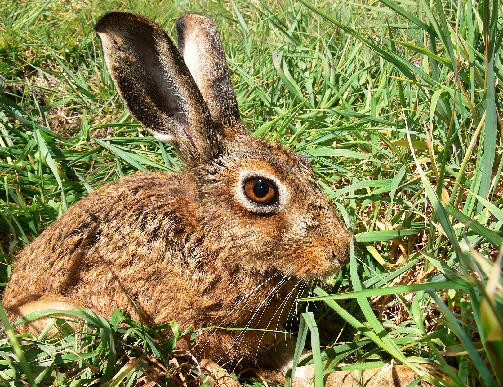 A Brown Hare, Lepus capensis - taken in south east Australia